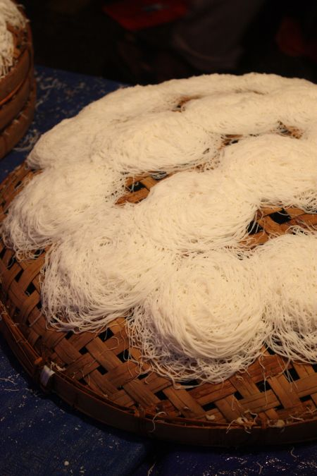 putu mayam